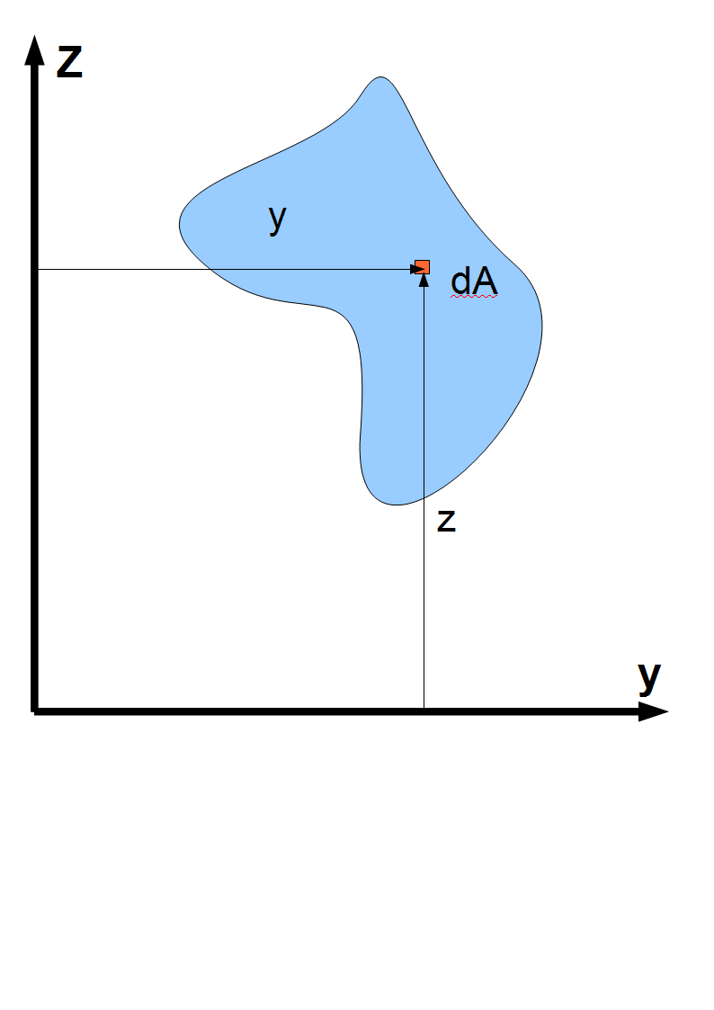 First moment of area